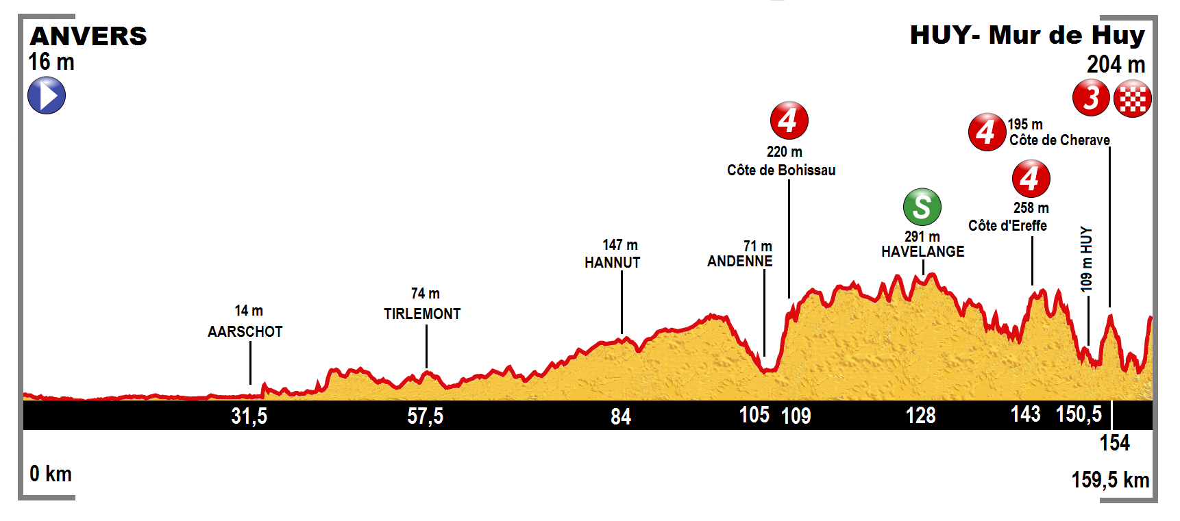 Profile of the third stage 2015 Tour de France